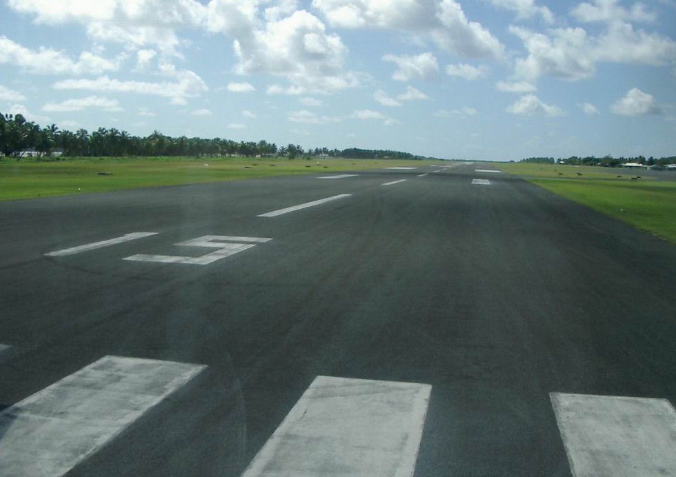 Cocos (Keeling) Islands Airport - view from threshold of Runway 15